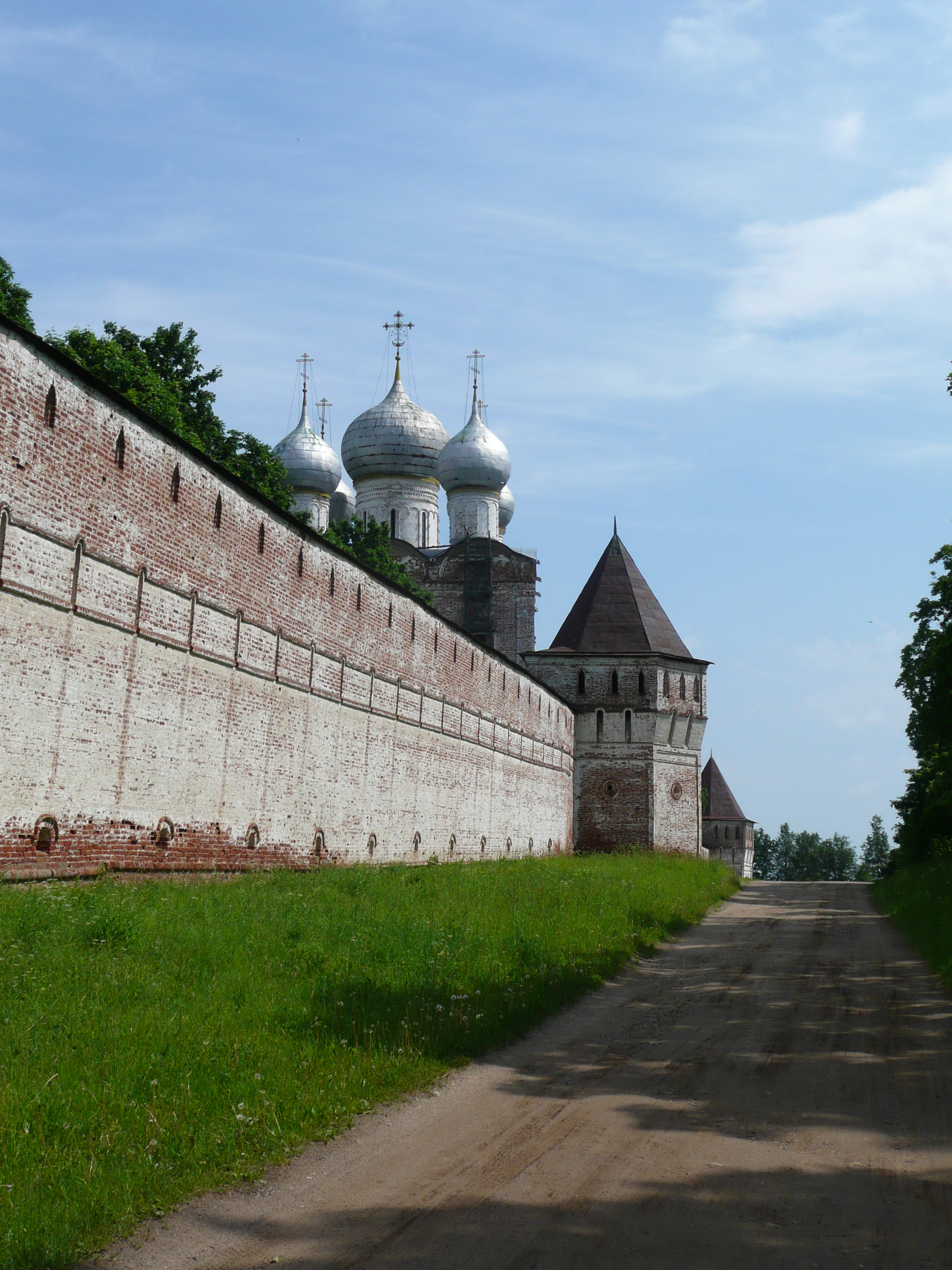 The Monastery of Sts. Boris and Gleb